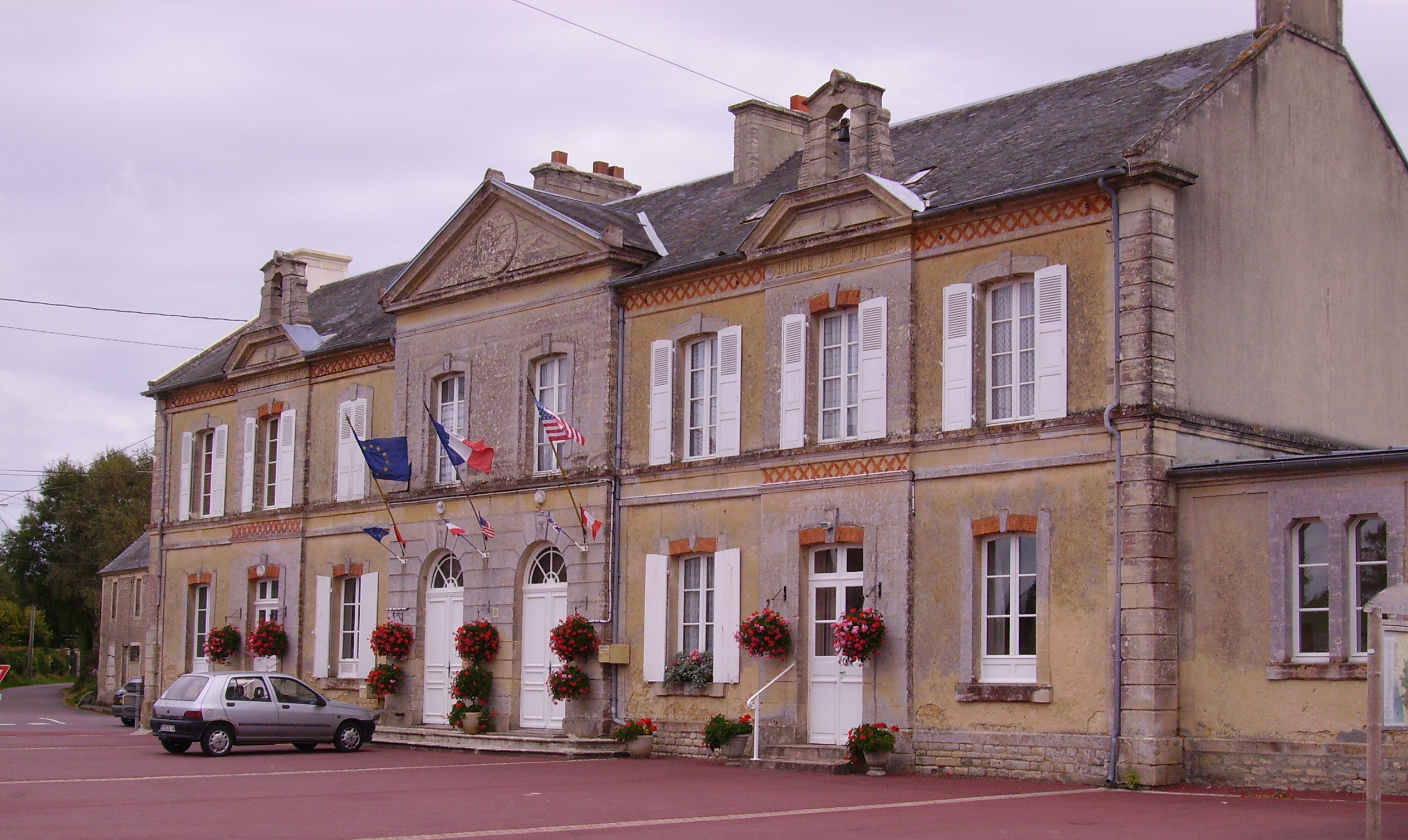 Ecrammeville Town hall